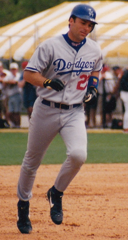 Todd Zeile of the Los Angeles Dodgers circles the bases after hitting a home run against the Baltimore Orioles during a spring training game in Fort Lauderdale, Fla., March 20, 1998.